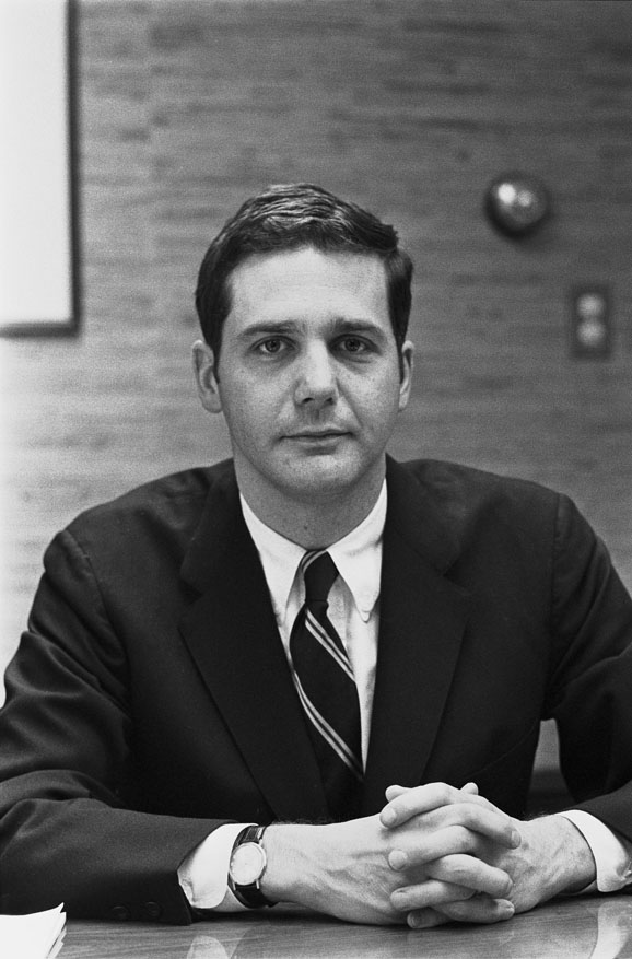 Portrait of Jeb Stuart Magruder